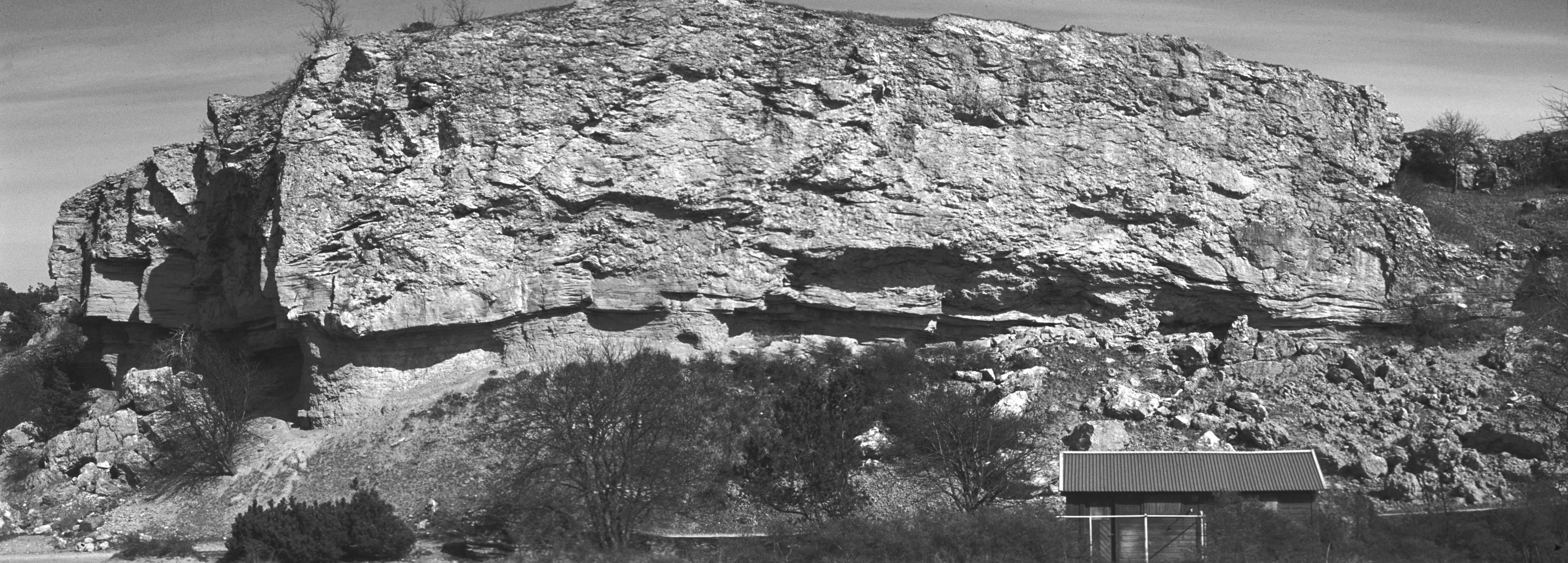 Silurian reef complex on Gotland, Sweden. If I recognise this correctly, the reef is part of the Sundre formation, and overlies the beds of the Hamra formation. (Smith609 (talk))